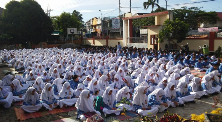 Jilbab Padangpanjang